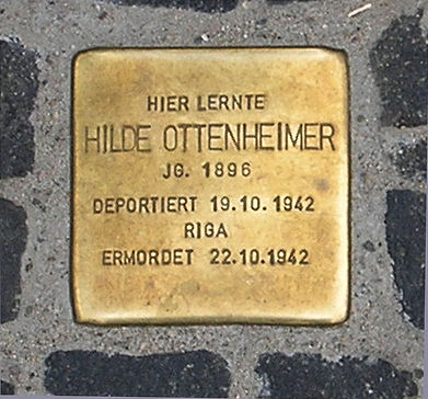 "stumbling block", Hilde Ottenheimer, Unter den Linden 6, Berlin-Mitte, Germany Koordinate:52°31′5″N 13°23′37″E / 52.51806°N 13.39361°E